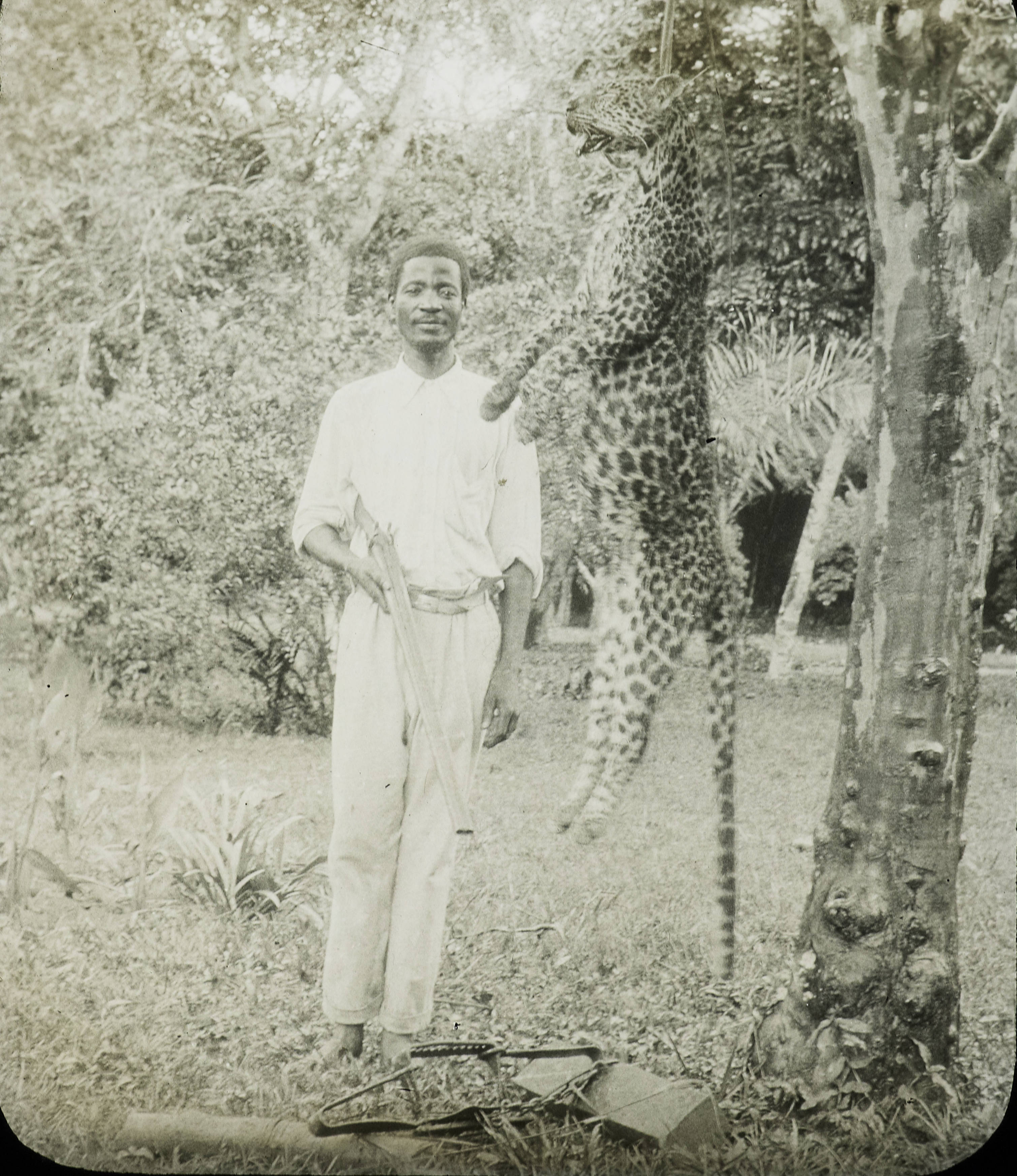 Hunter & leopard, Congo, ca. 1900-1915 Black and white lantern slide showing a proud male hunter displaying his catch, a leopard, which hangs by its neck from a tree, in Belgian colonial Congo Free State or post-1908 Belgian Congo (present day Democratic Republic of the Congo). The man, wearing a shirt and trousers, holds a long hunting rifle at his side. A metal trap can be seen on the ground below the tree. The caption to the image reads: "Hunter & Leopard. N.b Trap & Gun." This slide comes from a collection generated by missionaries working for the Congo-Balolo Mission, a mission begun in 1889 under the supervision of the East London Training Institute for Home and Foreign Missions that developed into the interdenominational evangelical mission Regions Beyond Missionary Union after 1900. Photographer: Unknown Filename: IMP-CSCNWW33-OS10-56.tif Coverage date: 1900/1915 Subject (unesco): Hunting; Animals Part of collection: International Mission Photography Archive, ca.1860-ca.1960 Part of subcollection: Photographs from the Centre for the Study of World Christianity, University of Edinburgh, U.K., ca.1900-ca.1940s Subject (corporate name): Congo-Balolo Mission Repository name: Centre for the Study of World Christianity Archival file: Volume2/IMP-CSCNWW33-OS10-56.tif Repository address: The University of Edinburgh School of Divinity, New College, Mound Place, Edinburgh EH1 2LX, United Kingdom Geographic subject (country): Congo Format (aacr2): lantern slides 8.2 x 8.2cm Geographic subject (continent): Africa Rights: Contact the repository for details. Part of series: Regions Beyond Missionary Union. Congo Lantern Slides (CSCNWW33/OS10) Repository Date created: 1900/1915 Publisher (of the digital version): University of Southern California. Libraries Subject (aat genre): portraits Format (aat): lantern slides; photographs Access conditions: Geographic subject: forests File: CSCNWW33/OS10/56 Subject (lcsh): Big game hunting